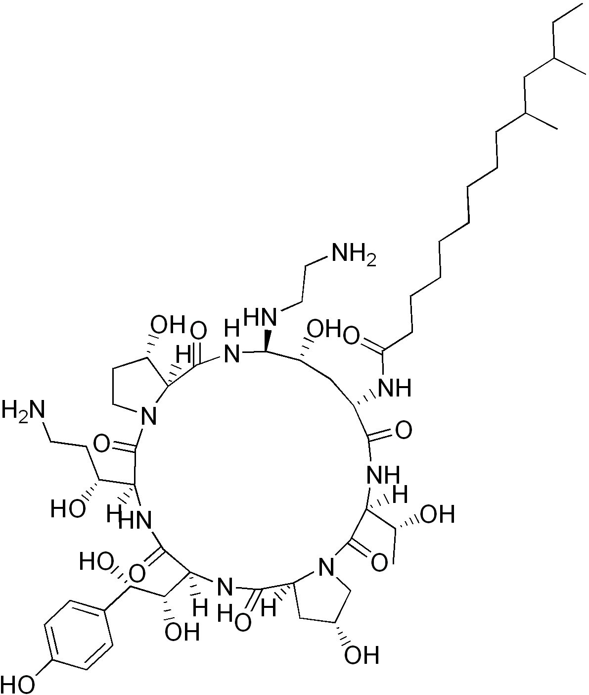 chemical structure of caspofungin created with ChemDraw